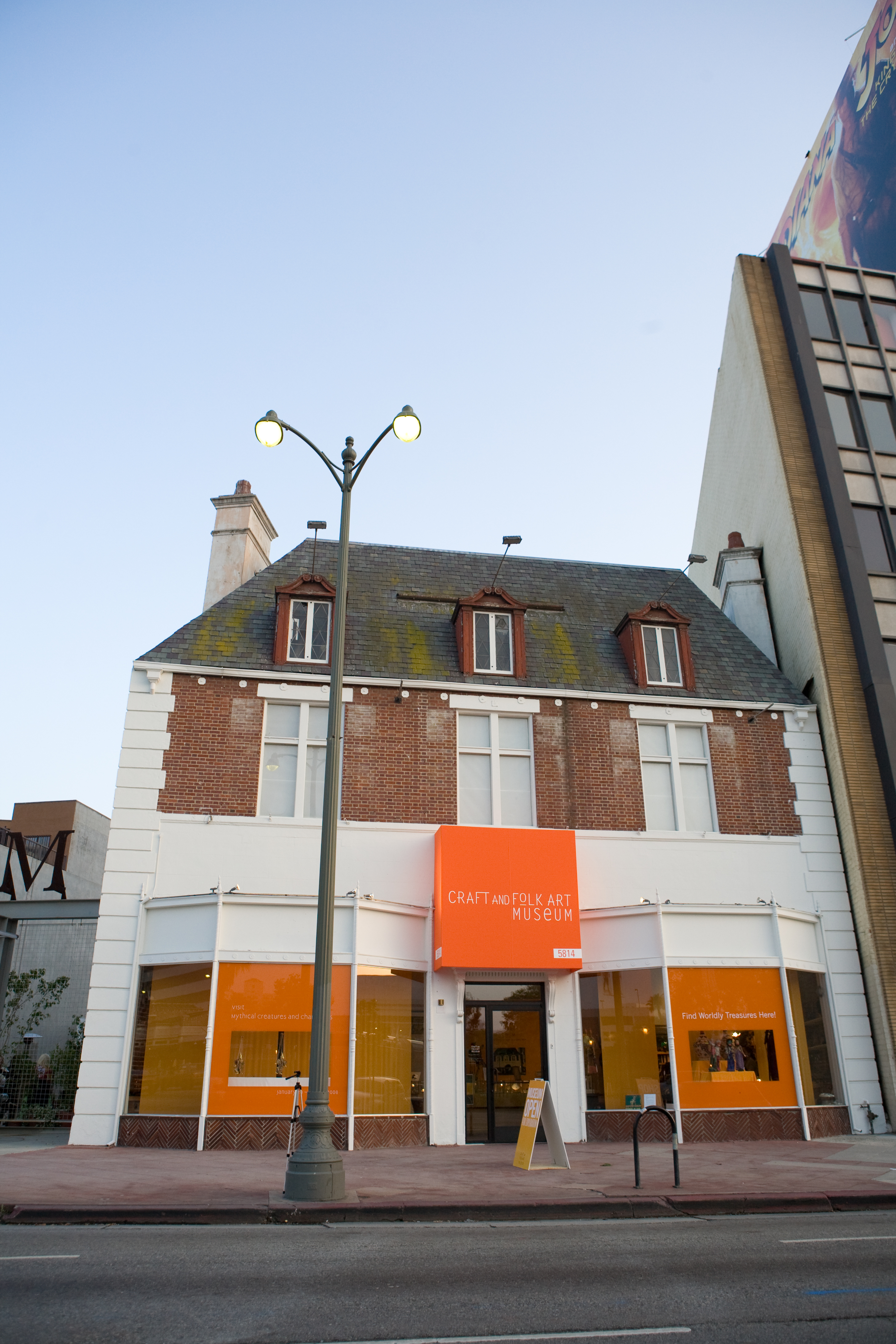 Exterior shot of the Craft and Folk Art Museum